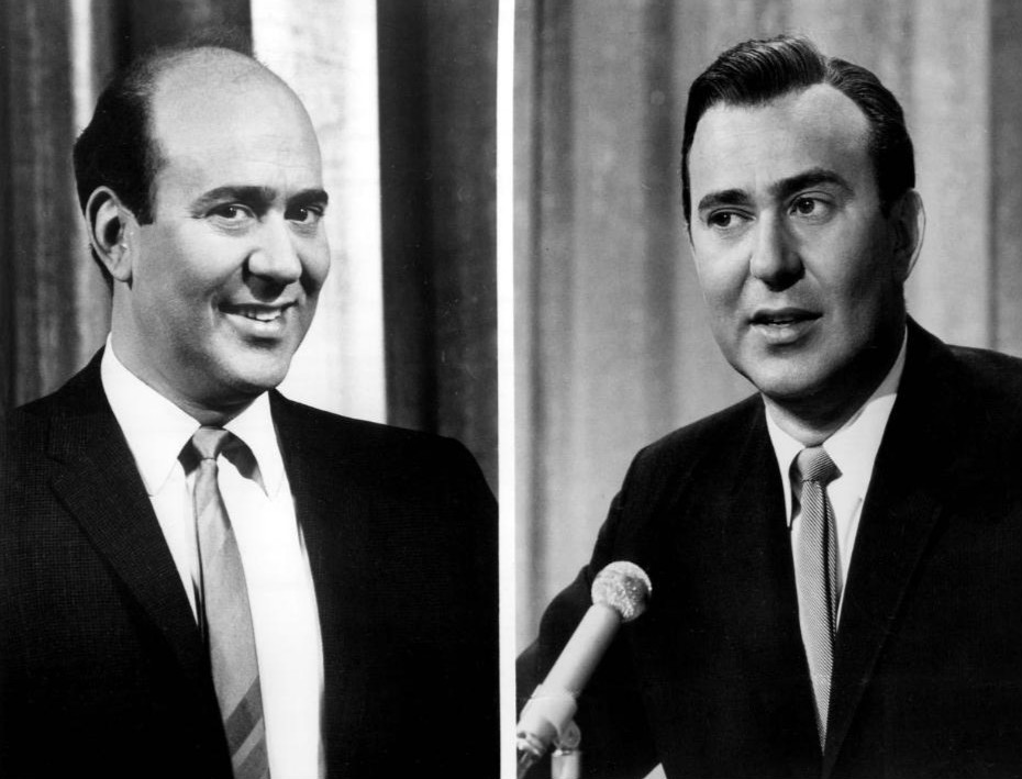 Composite photo of Carl Reiner with and without hairpiece. Reiner was the host of a game show, The Celebrity Game at the time.